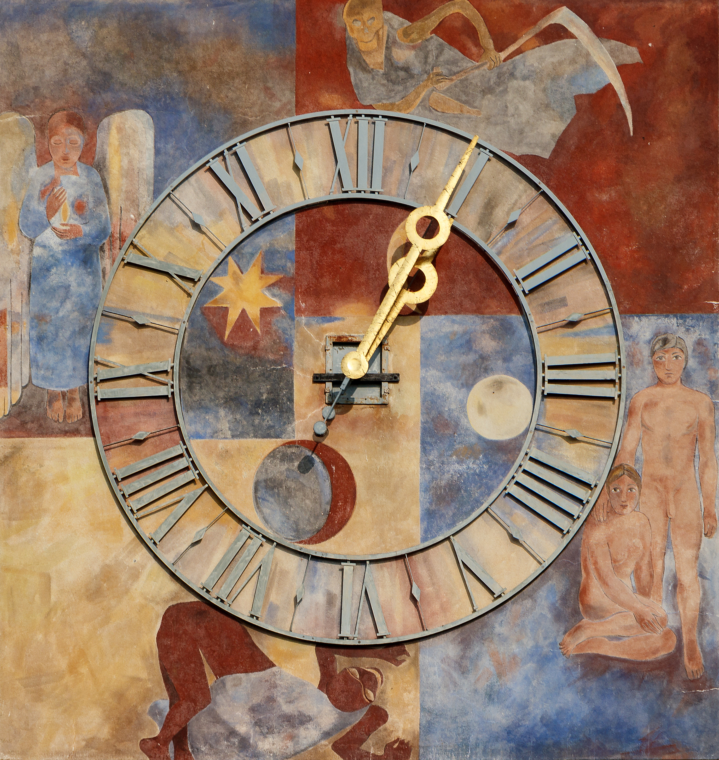 Tower clock at the south side of the Schwabentor with the painting "Kosmos" by Carl Roesch, Vorstadt 69, Schaffhausen, Switzerland